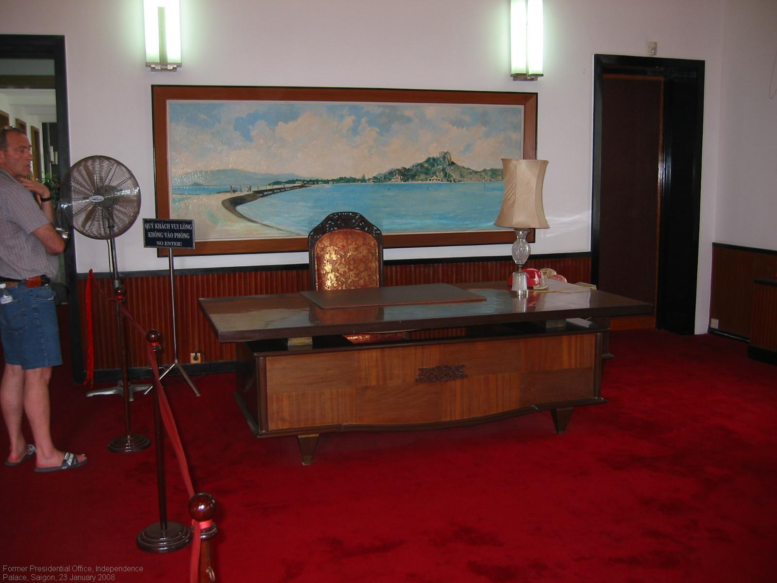 Former Presidential Office at Reunification Palace in Saigon